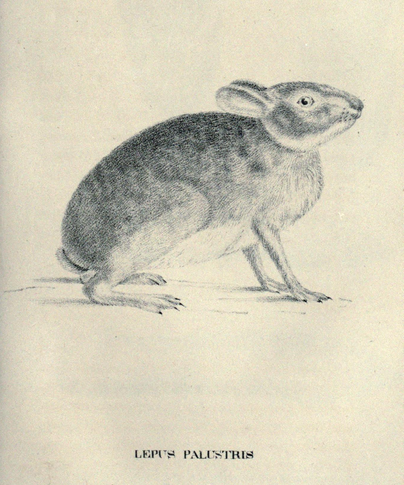 Drawing of Lepus palustris (now Sylvielagus arcticus) in it's original scientific description